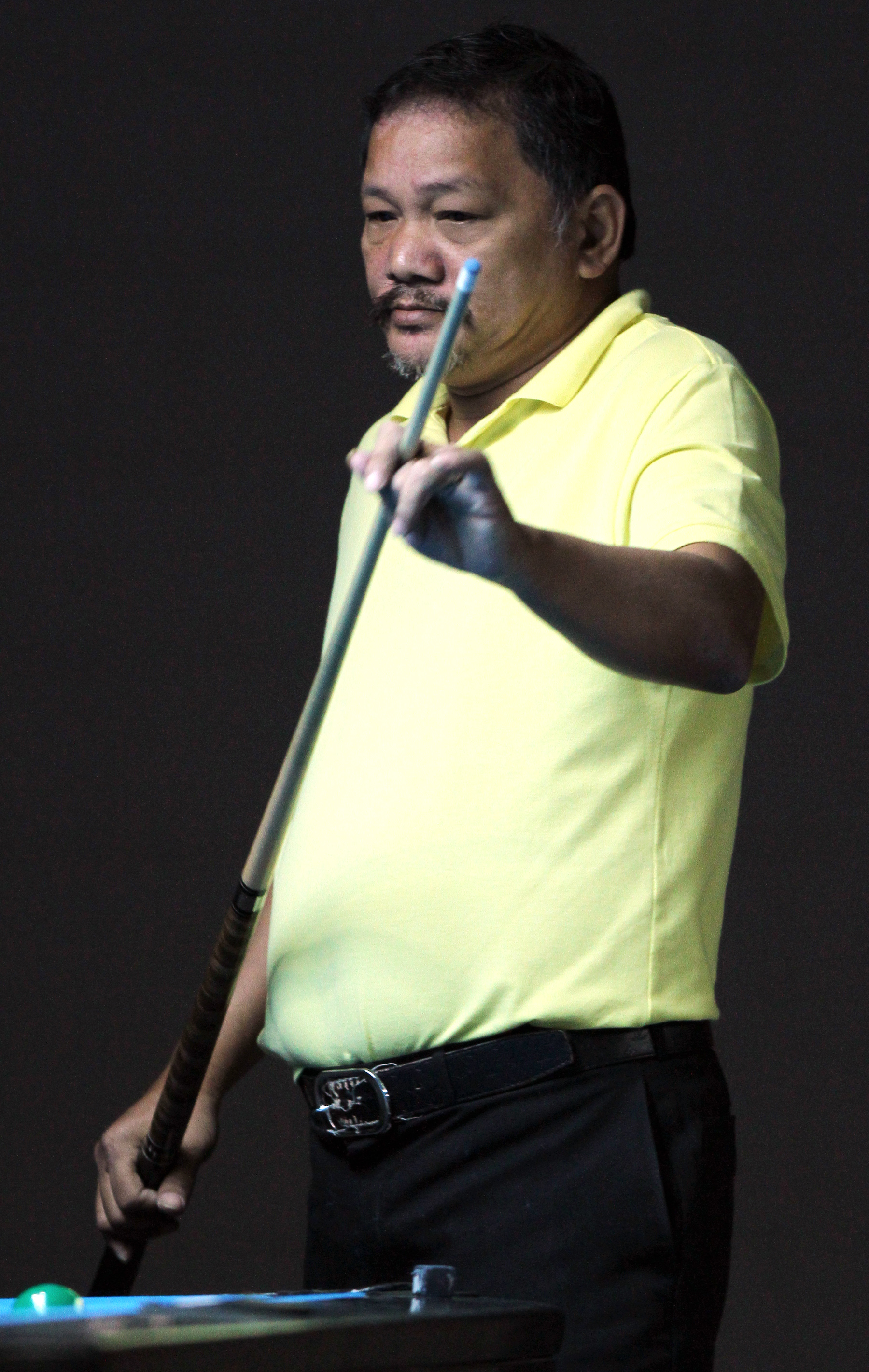 Filipino superstar Efren Reyes competes in the World 9-Ball Pool Championship in Doha. Picture by Vinod Divakaran